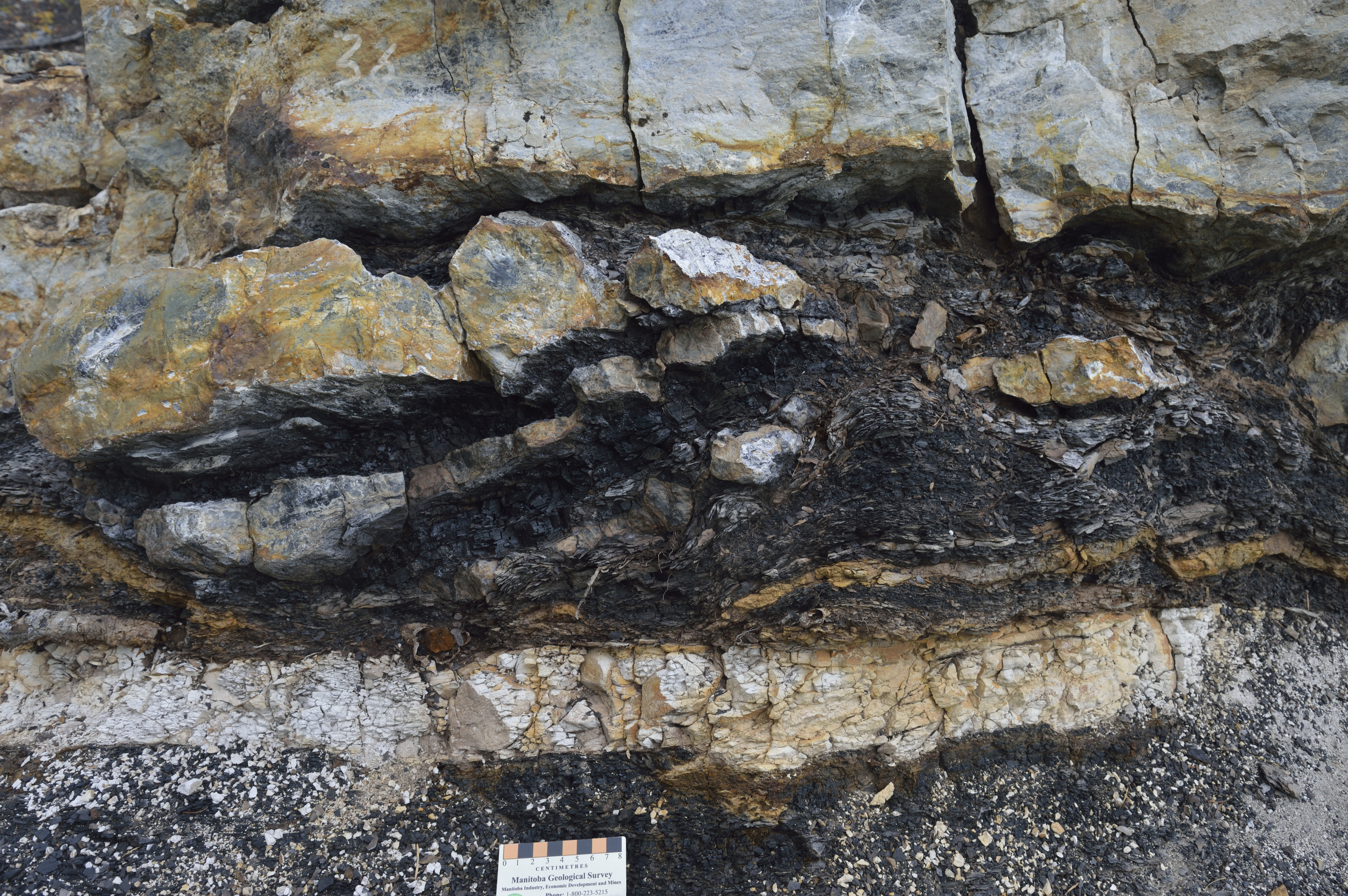 Close up showing sequence of coals, chert, and volcanic ash in the early Eocene Princeton Chert, British Columbia. Chert layer 36 is labelled. Image taken August 2015.